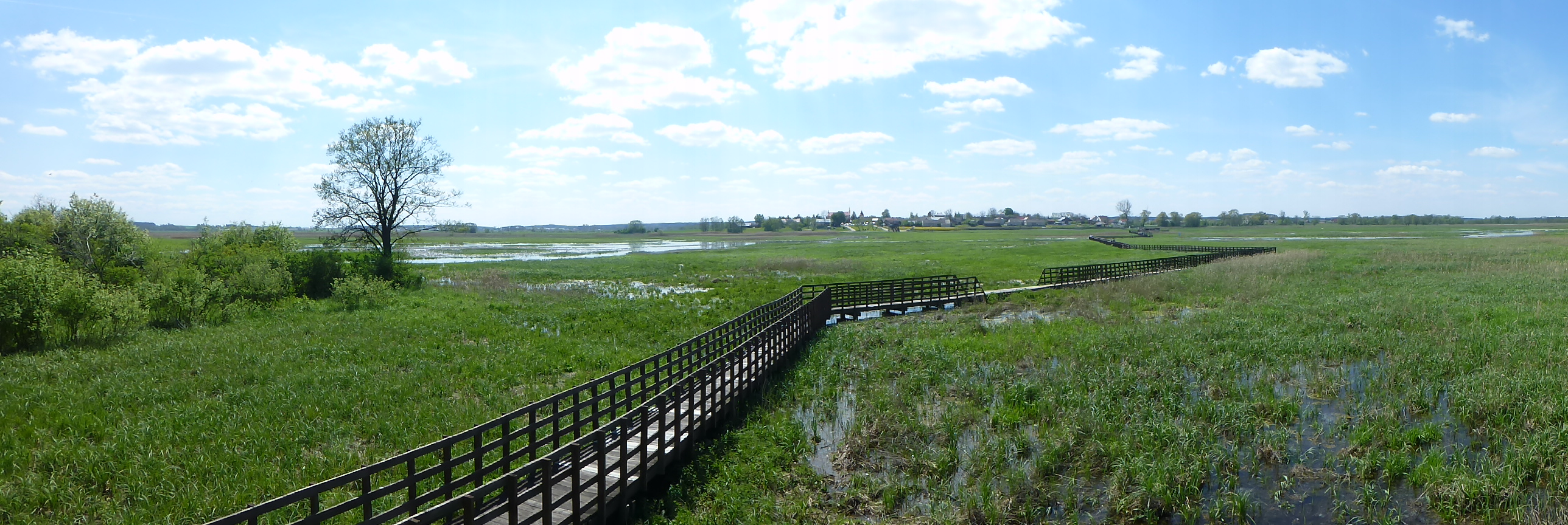 Footpath between Śliwno and Waniewo This is a photography of protected area with CRFOP ID PL.ZIPOP.1393.PN.10